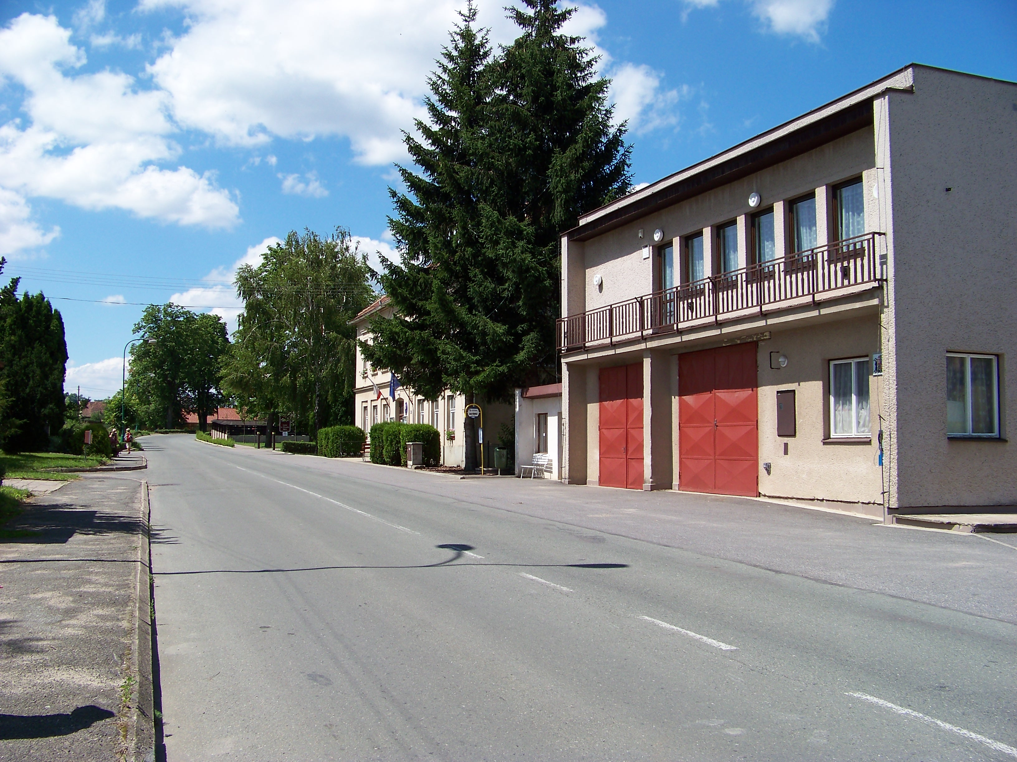 Veliny, Pardubice District, Pardubice Region, the Czech Republic. The main road (I/36), a fire station and a municipal office.